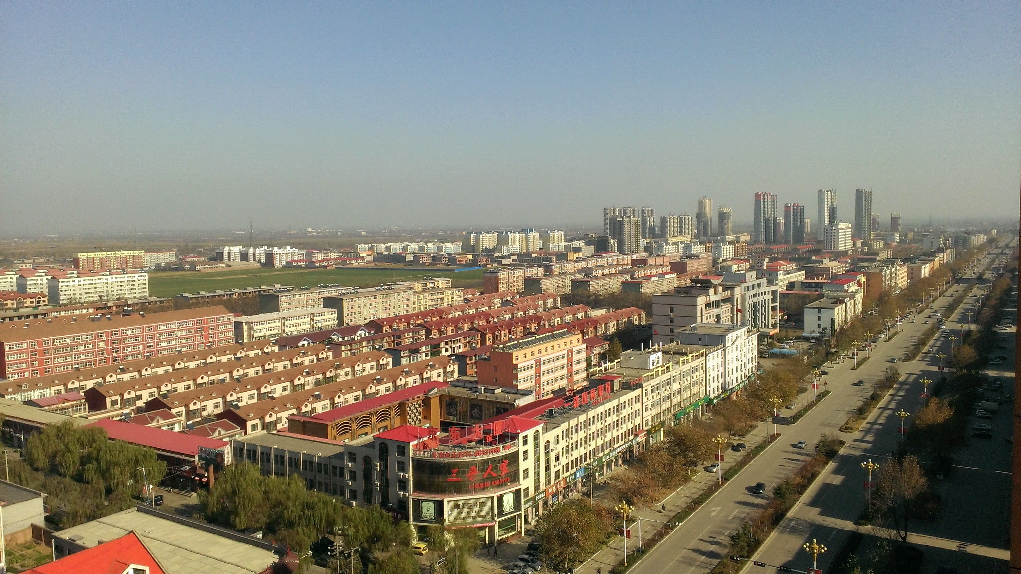 Horizon of Yuanshi County, Shijiazhuang prefecture, Hebei, China